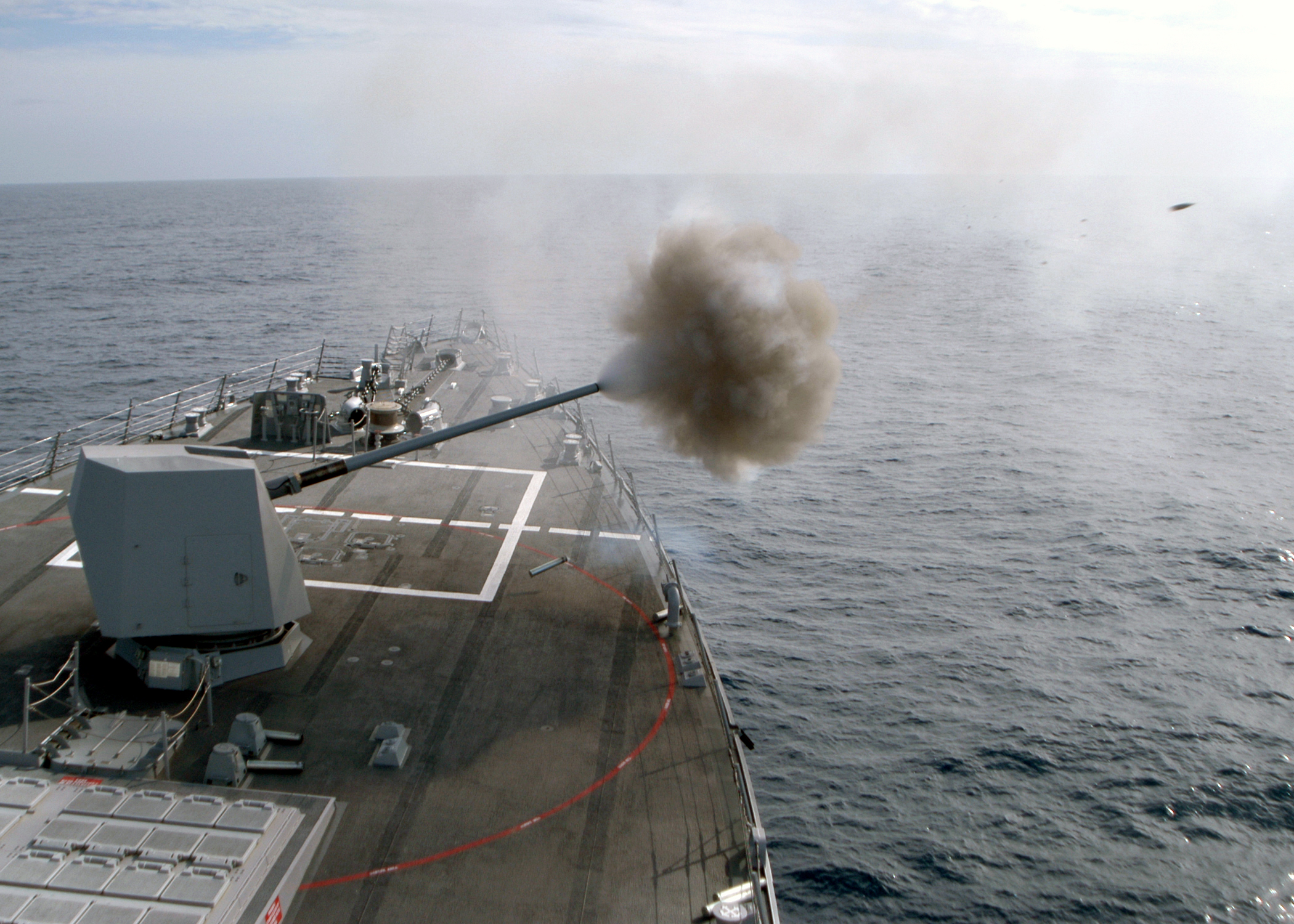 The forward Mark 45 Mod 4 lightweight gun (5" 62 cal.) is fired with live ammunition as the ship begins its Combat System Ships Qualification Test (CSSQT). Preble was commissioned on Nov. 9, 2002 and is the newest Arleigh Burke class destroyer. CSSQT is one of many qualifications a newly commissioned ship must undergo prior to its first deployment.